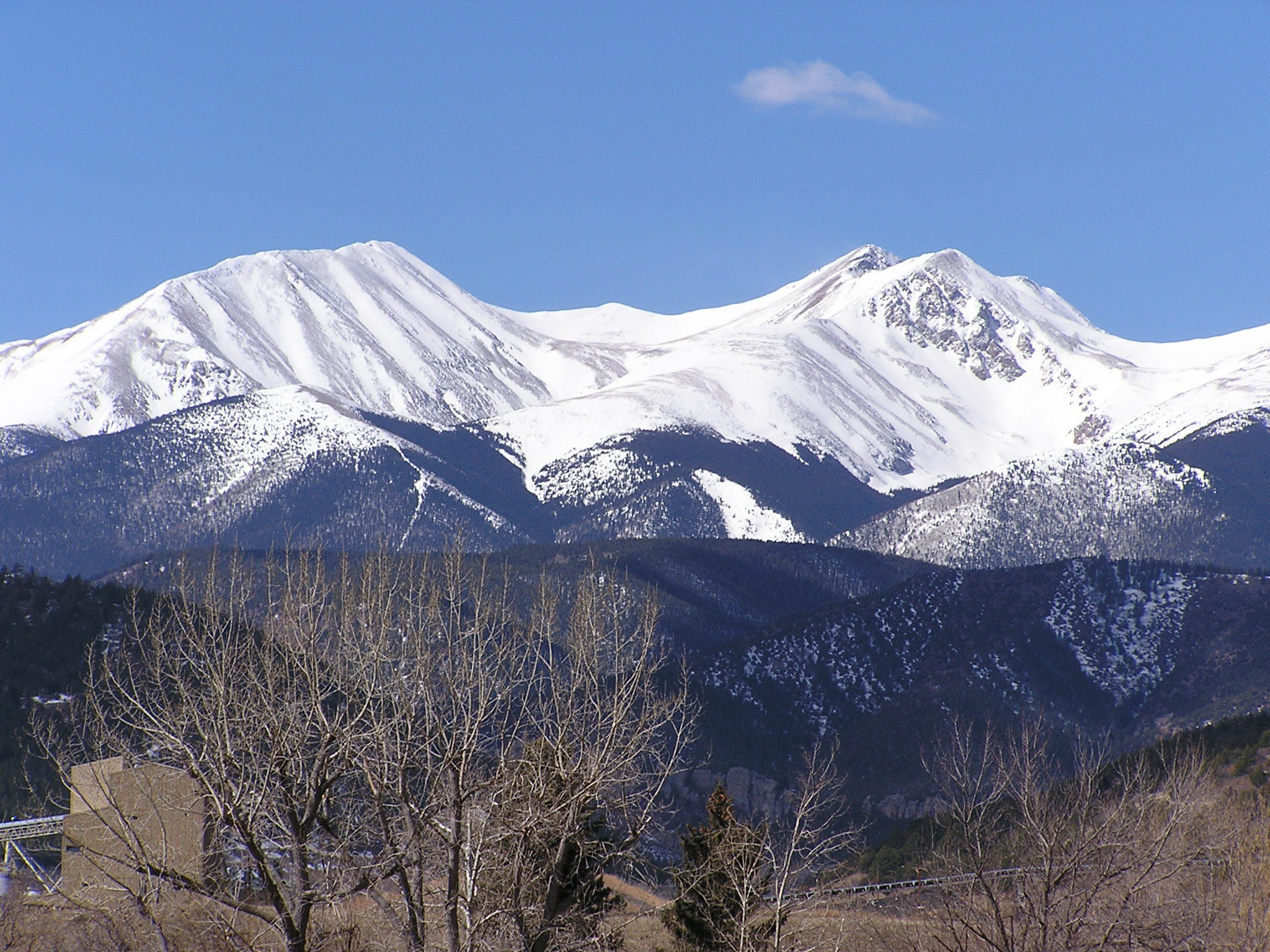 A close-up view of Red Mountain and Culebra Peak, taken from along C-12 near the town of Stonewall.